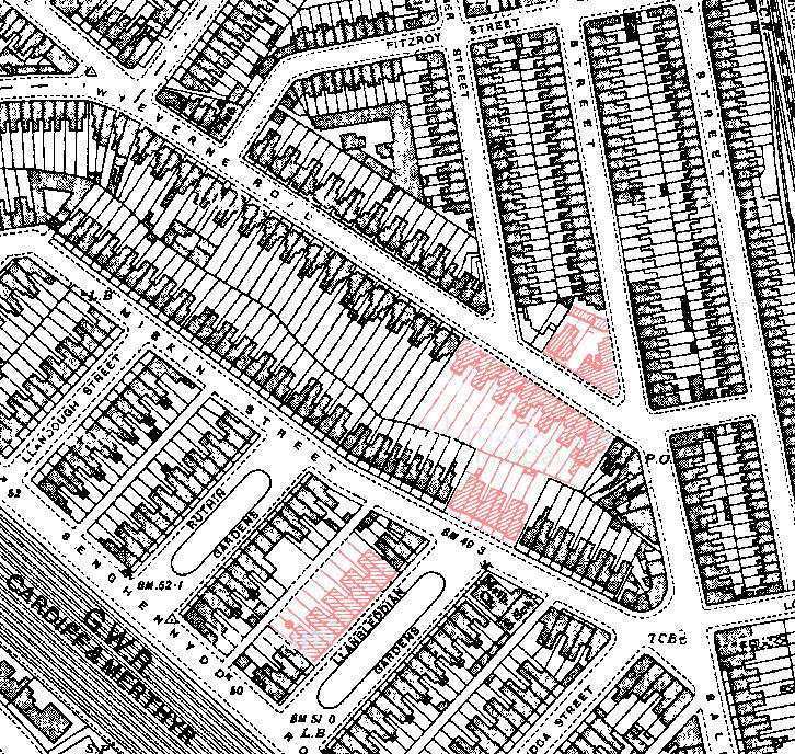 Map of damage in Cathays during the Cardiff Blitz caused when 2 parachute landmines detonated, killing 23 people.